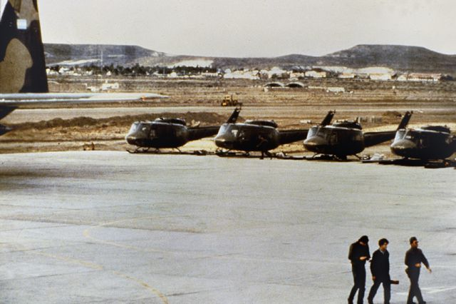 Argentine Huey helicopters at Port Stanley airfield shortly after being flown in by C-130 transport aircraft from Argentina. The helicopters have not yet been fitted with their rotors.